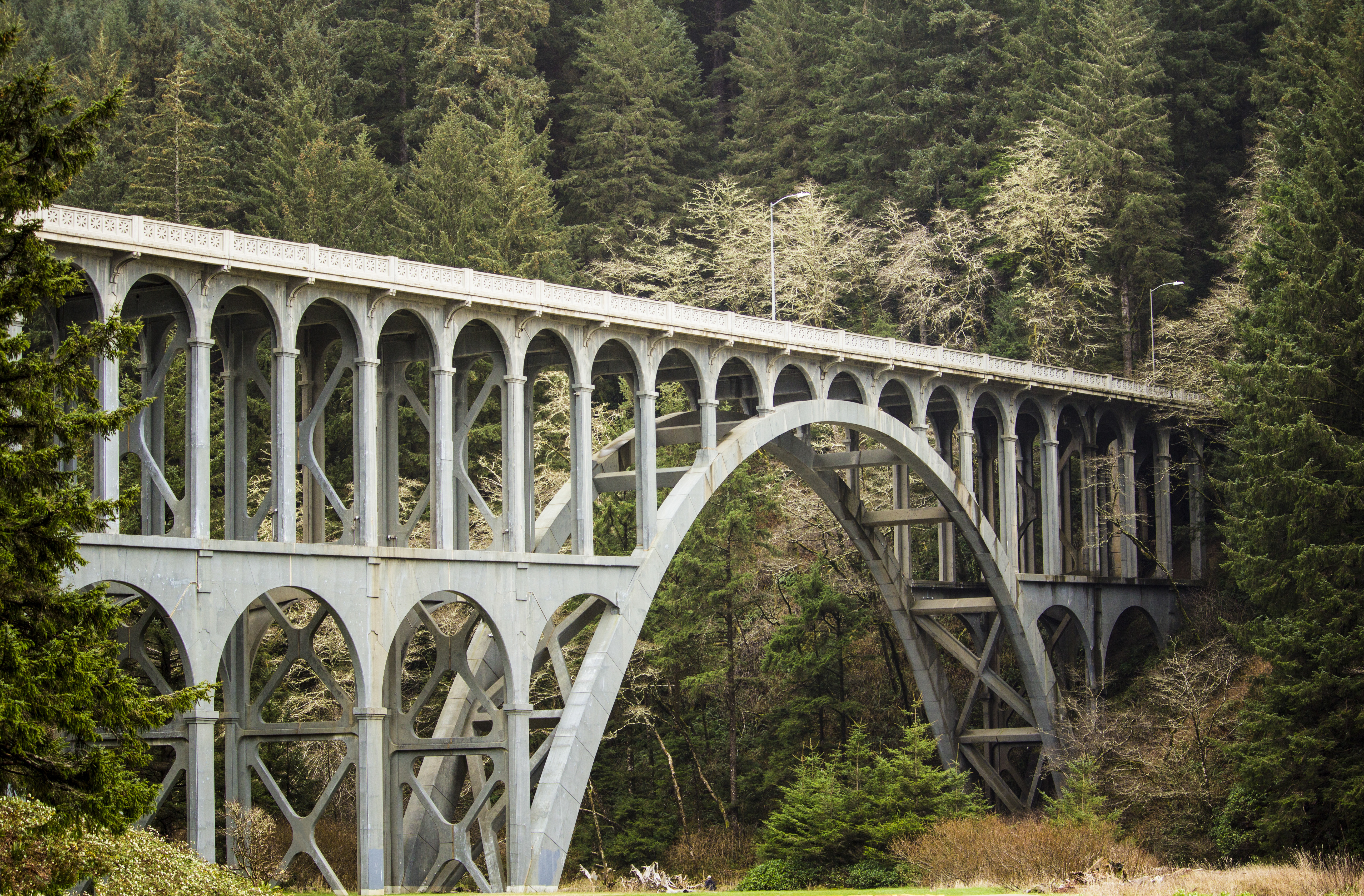 One of the bridges along the Oregon coast.